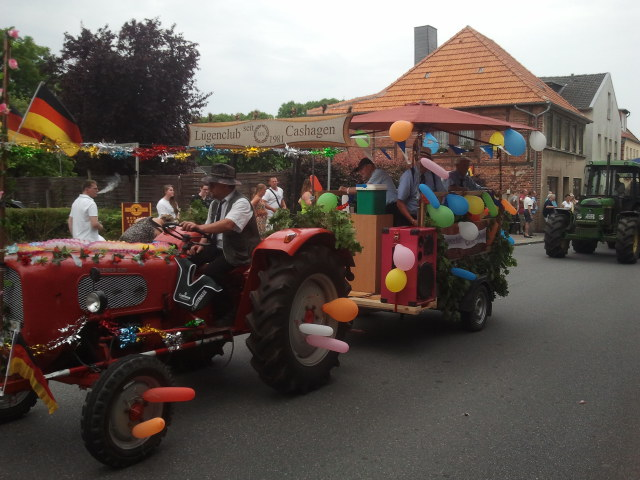 Volksfestumzug Lübecker Straße in Ahrensbök